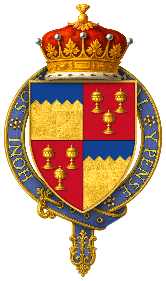 Sir James Butler, 1st Earl of Wiltshire, KG BURKE, Sir Bernard, The General Armory of England, Scotland, Ireland, and Wales; Comprising a Registry of Armorial Bearings from the Earliest to the Present Time, London: Harrison & Sons, 1884. “ Butler (Earl of Wiltshire…) Cadets of Ormond bore the arms of the parent house [quarterly, 1st and 4th, or, a chief indented az.; 2nd and 3rd, gu. three covered cups or.] ”